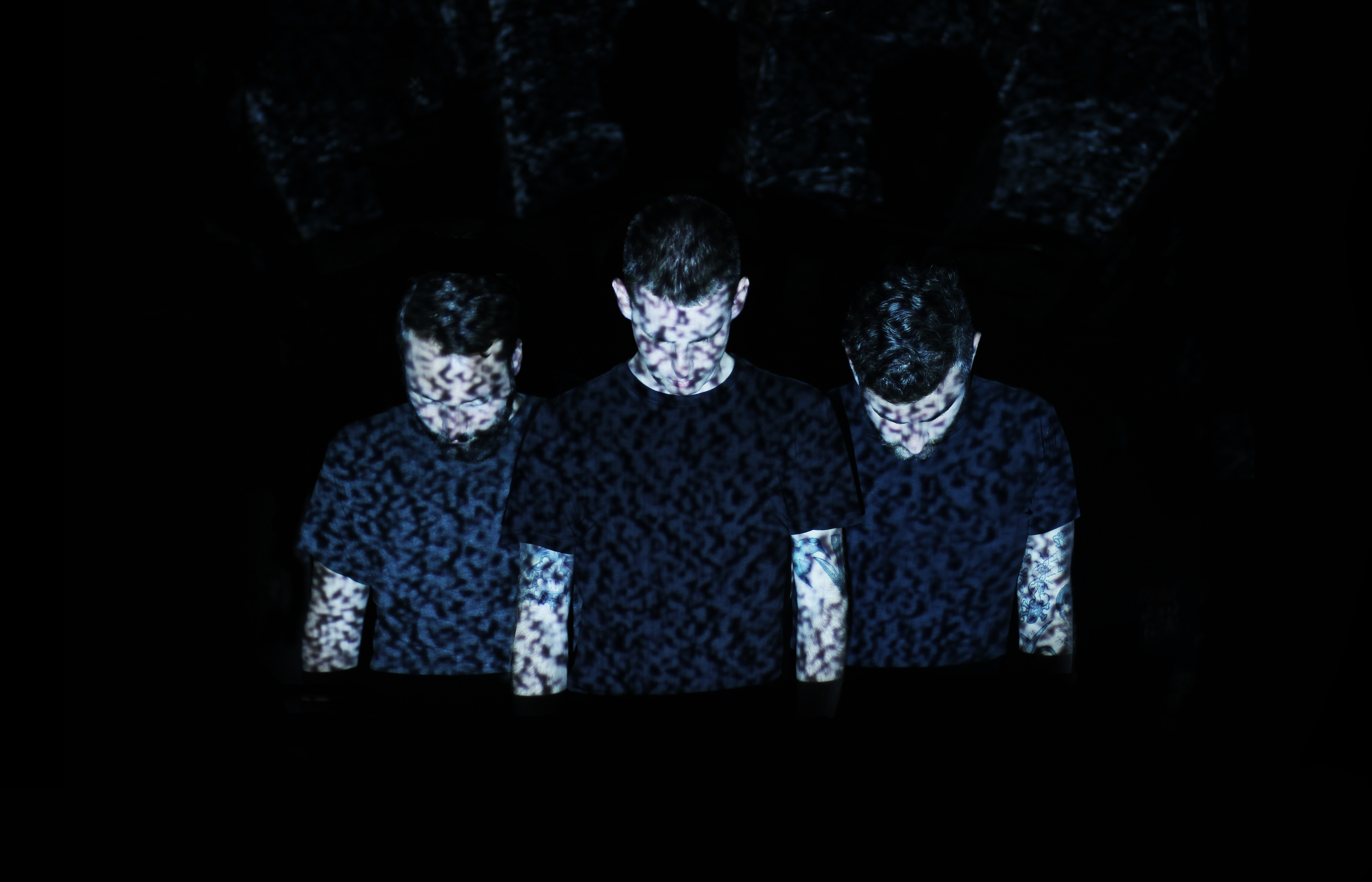 Sannhet